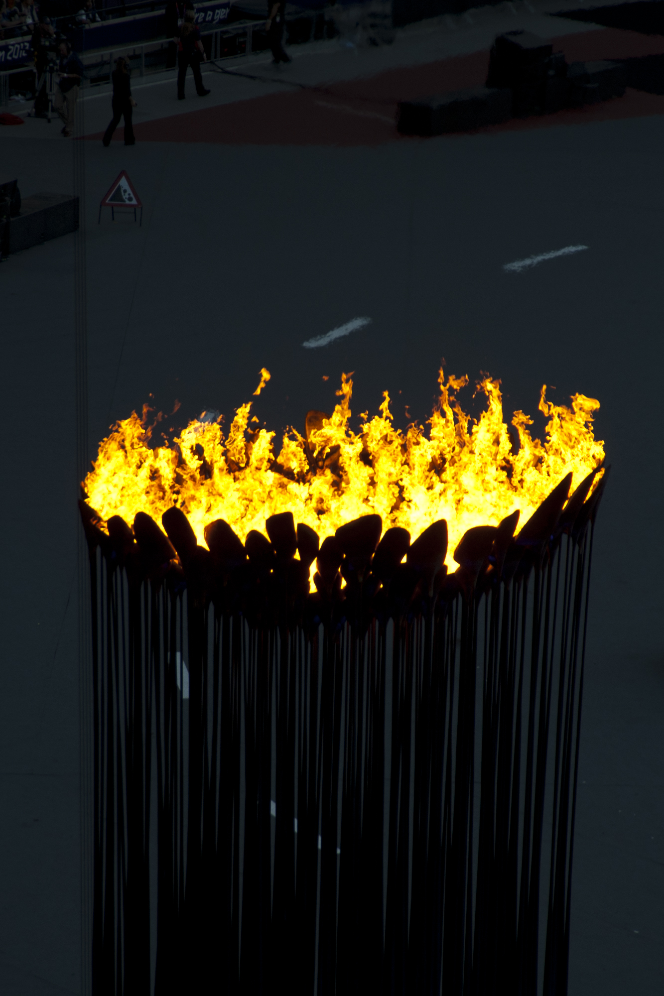 Closing Ceremony